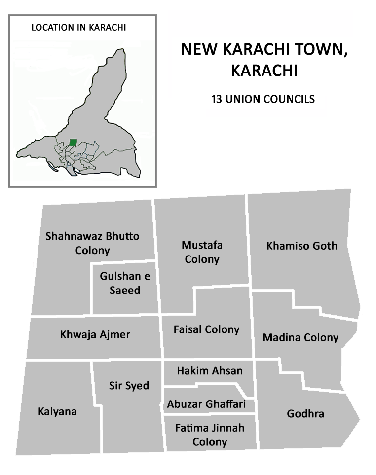 Union councils of New Karachi Town, Karachi.